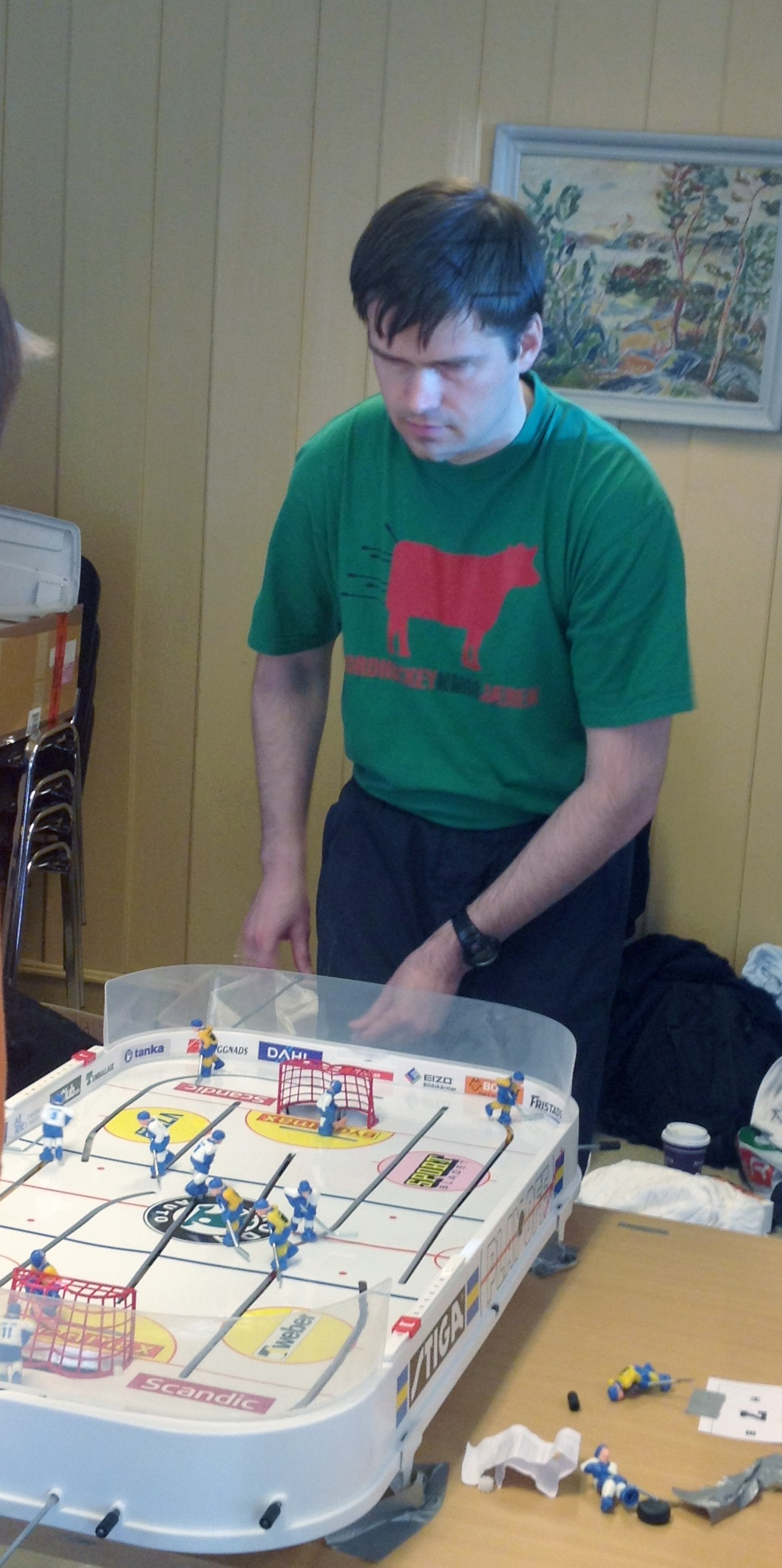 Table hockey player Daniel Remmem in action at Lamberseter Open 2012.